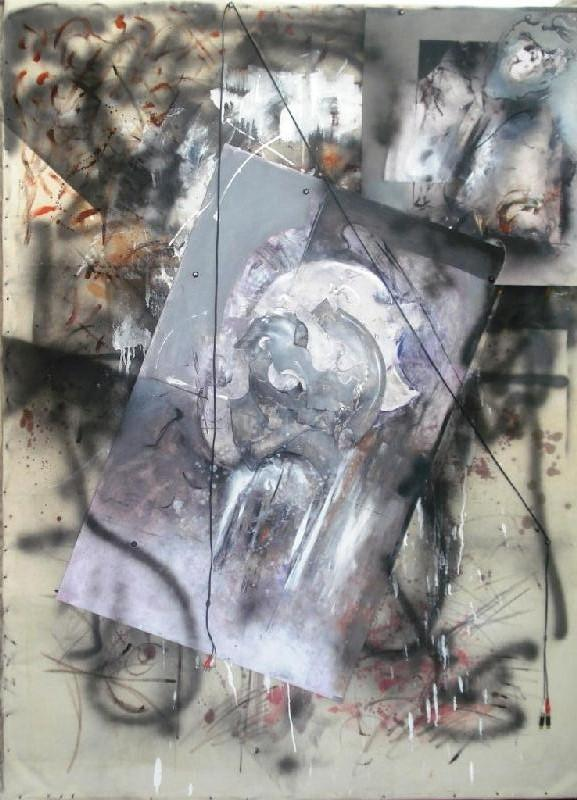 Renacimiento, oil on canvas, mixed, 1.30x2.00 m